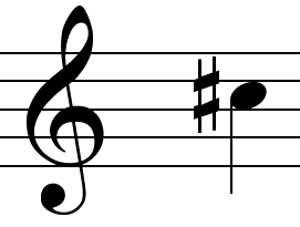 the C sharp note on a treble clef